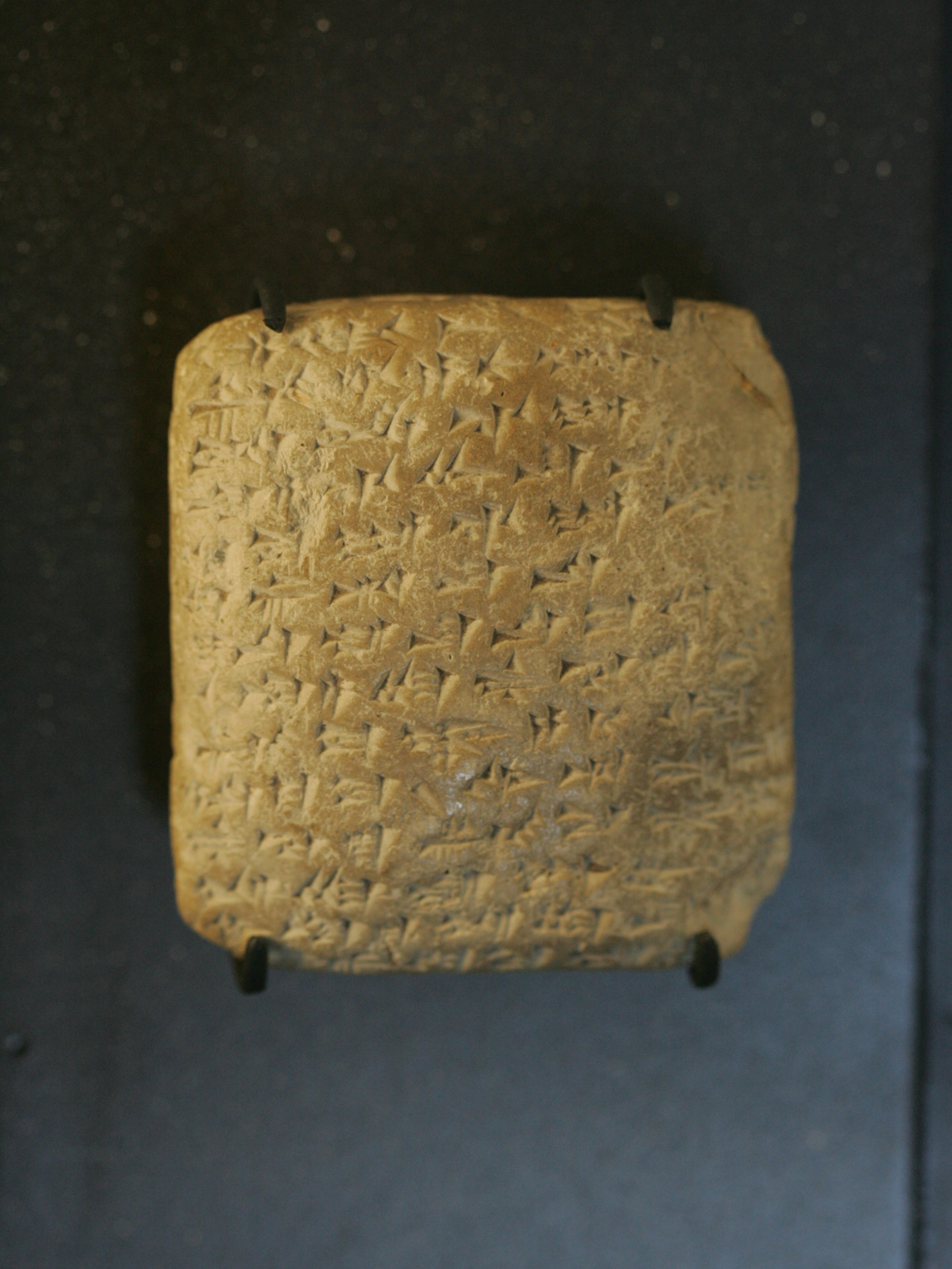 Amarna Letters Letter of Biridiya, prince of Megiddo, to the king of Egypt; subject of harvesting by corvee workers in the city of Nuribta. Terra cottaCurrent location Louvre Museum (Inventory)Native nameMusée du LouvreParent institutionÉtablissement public du musée du LouvreLocationParisCoordinates48° 51′ 37.42″ N, 2° 20′ 15.36″ E Established1793Web page control : Q19675 VIAF: 257711507 ISNI: 0000 0001 2260 177X ULAN: 500125189 LCCN: n80020283 NLA: 35912436 WorldCat Sully, Rez-de-chaussée, Levant, Salle D, Vitrine 4 : L'âge du bronze récent 1550 - 1150 avant J.-C.Accession number AO 7098 . Also known as EA 365.Credit line Acquired in 1918References louvre.frSource/Photographer Rama